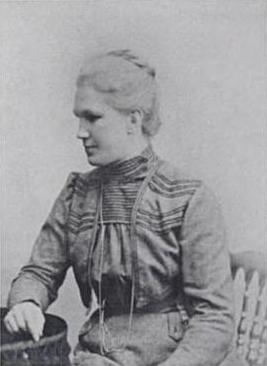 Photographic image of the pioneering Austrian feminist Auguste Fickert (1855-1910)